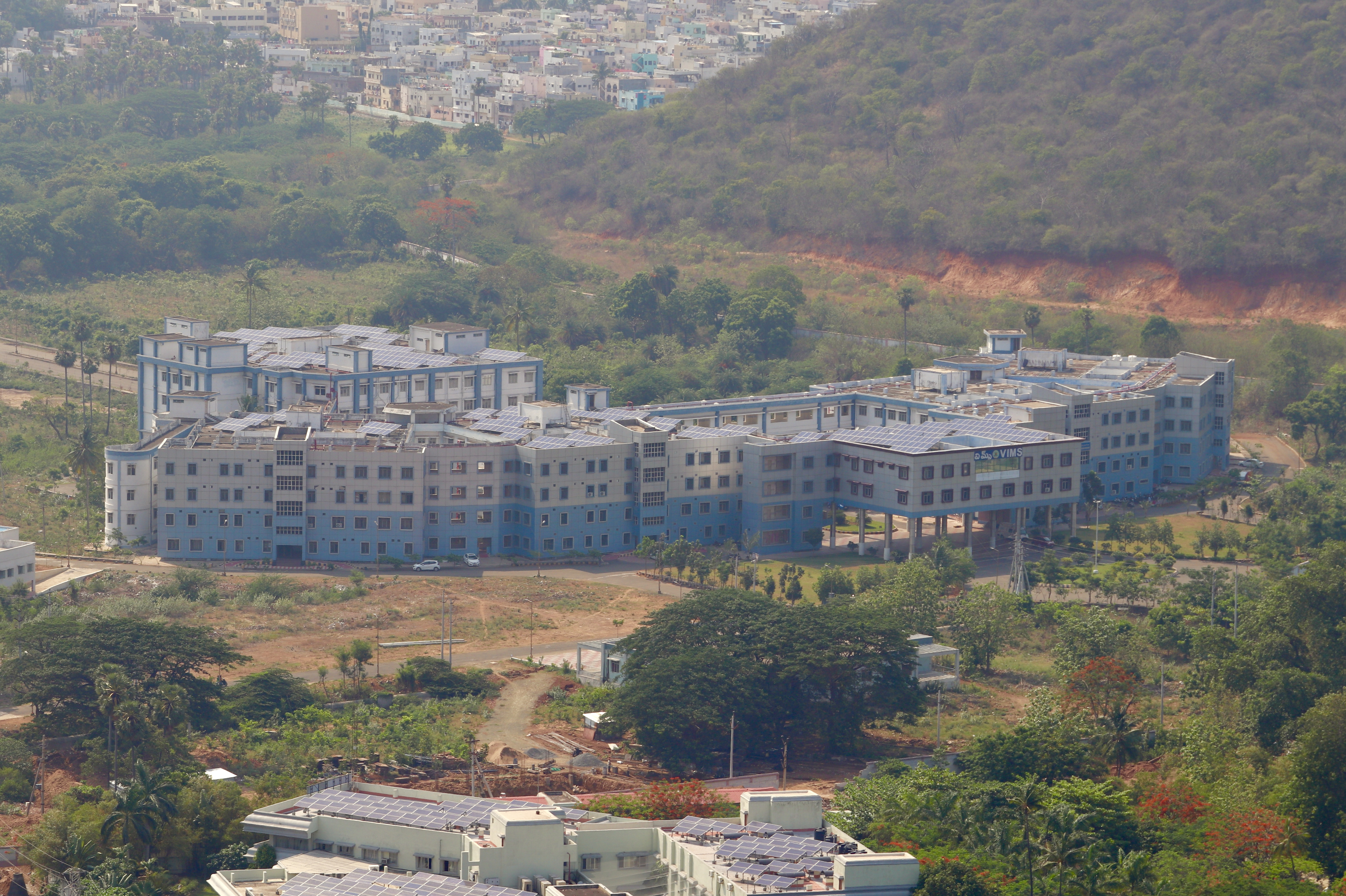 VIMS abbreviated as Visakha Institute of Medical Sciences is an educational Institution in Visakhapatnam